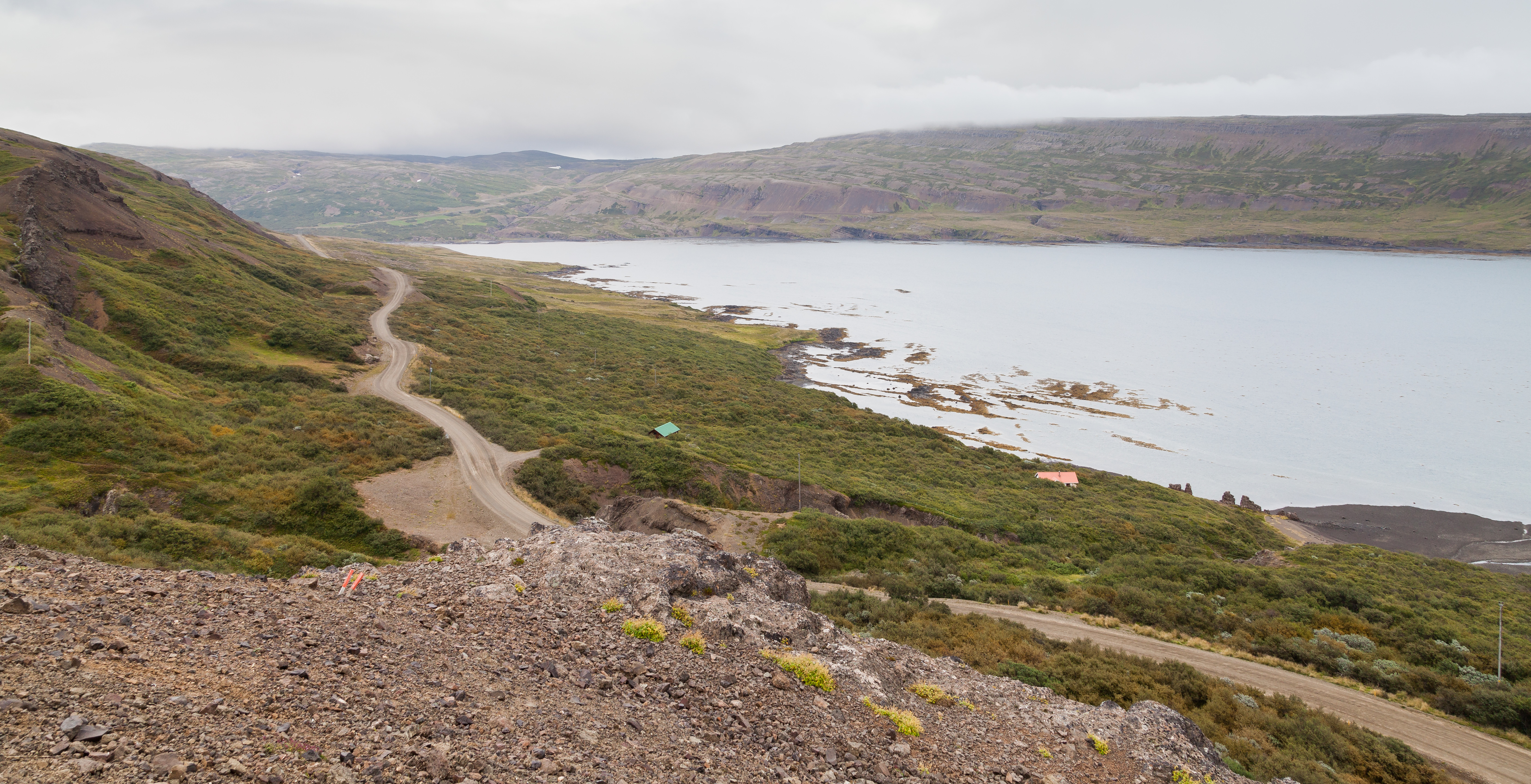 Fjords near Vattarnes, Vestfirðir, Iceland